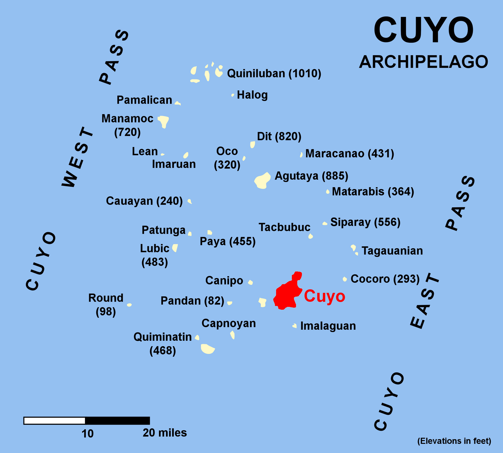 Cuyo_map.